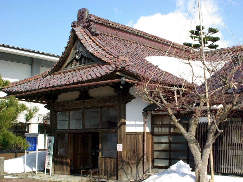 Goinden, the former retirement house of Sakai Tadaaki (1813 - 1873), the 9th lord of Shōnai domain. It is preserved in Chidō Museum, Tsuruoka.